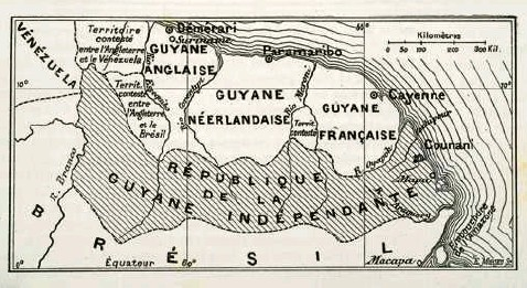 Location of the Republic of Independent Guyana, on a map from 1886.